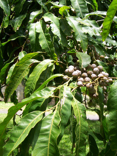 Elattostachys nervosa RBG Sydney